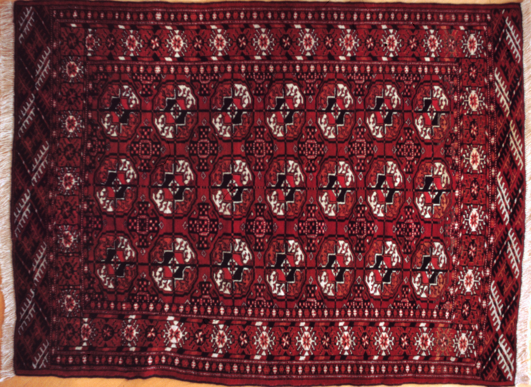 Carpet from Bouchara, 60 years old